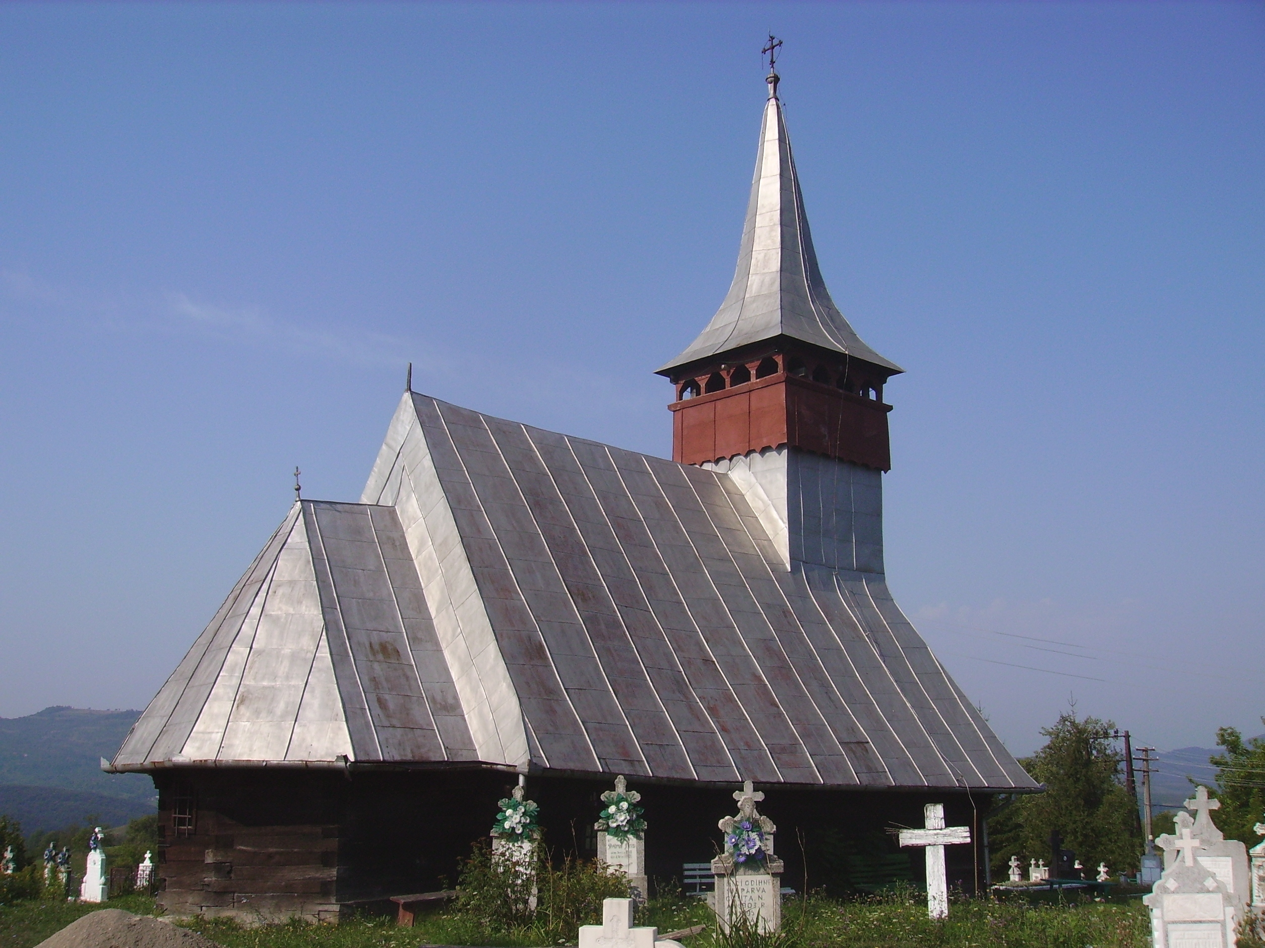 Wooden church in Luncoiu de Sus, Hunedoara county, Romania